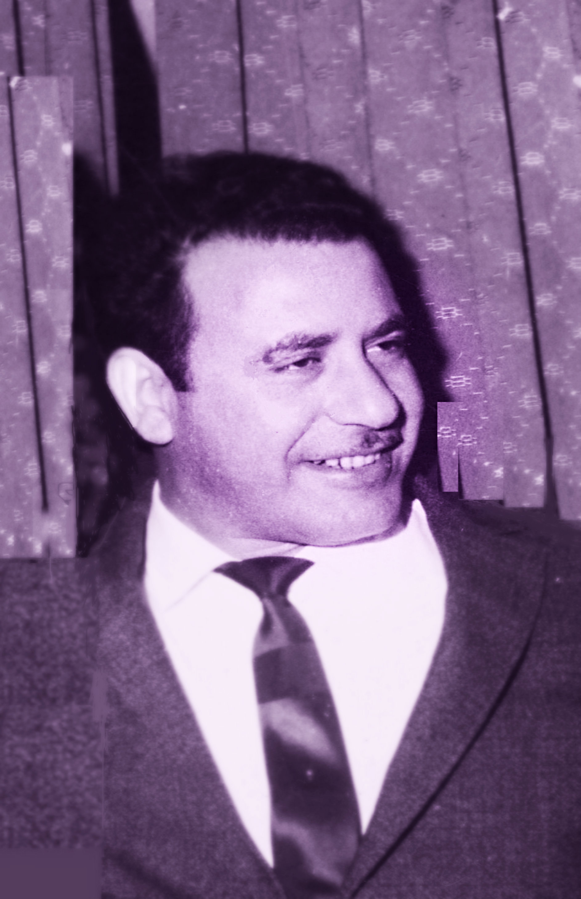 Filfel Gourgy, People of Israel